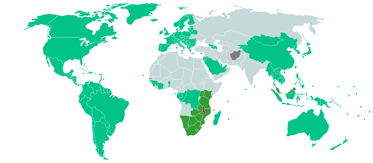 Visa policy of Malawi Malawi Visa exemption Visa on arrival or eVisa eVisa